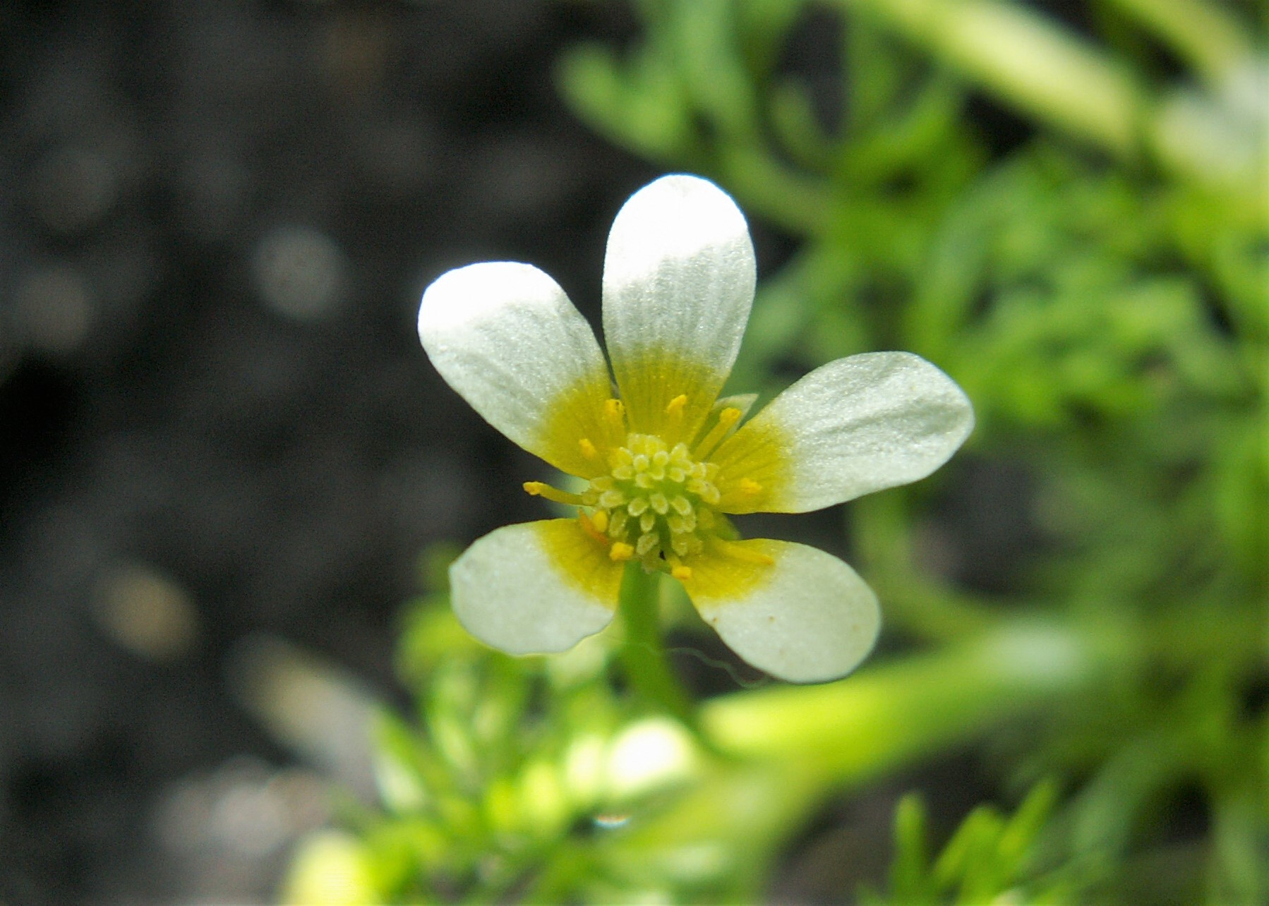 Ranunculus trichophyllus on Miedwie Lake near Wierzbno, NW Poland